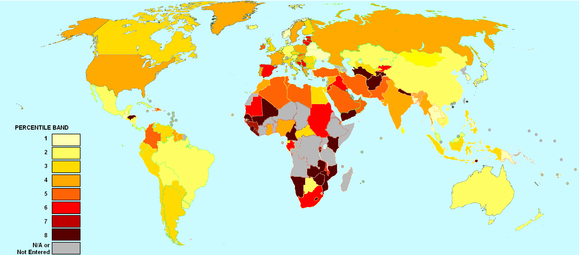 Shows world unemployment rates in eight bands arranged in an iron-grey palette